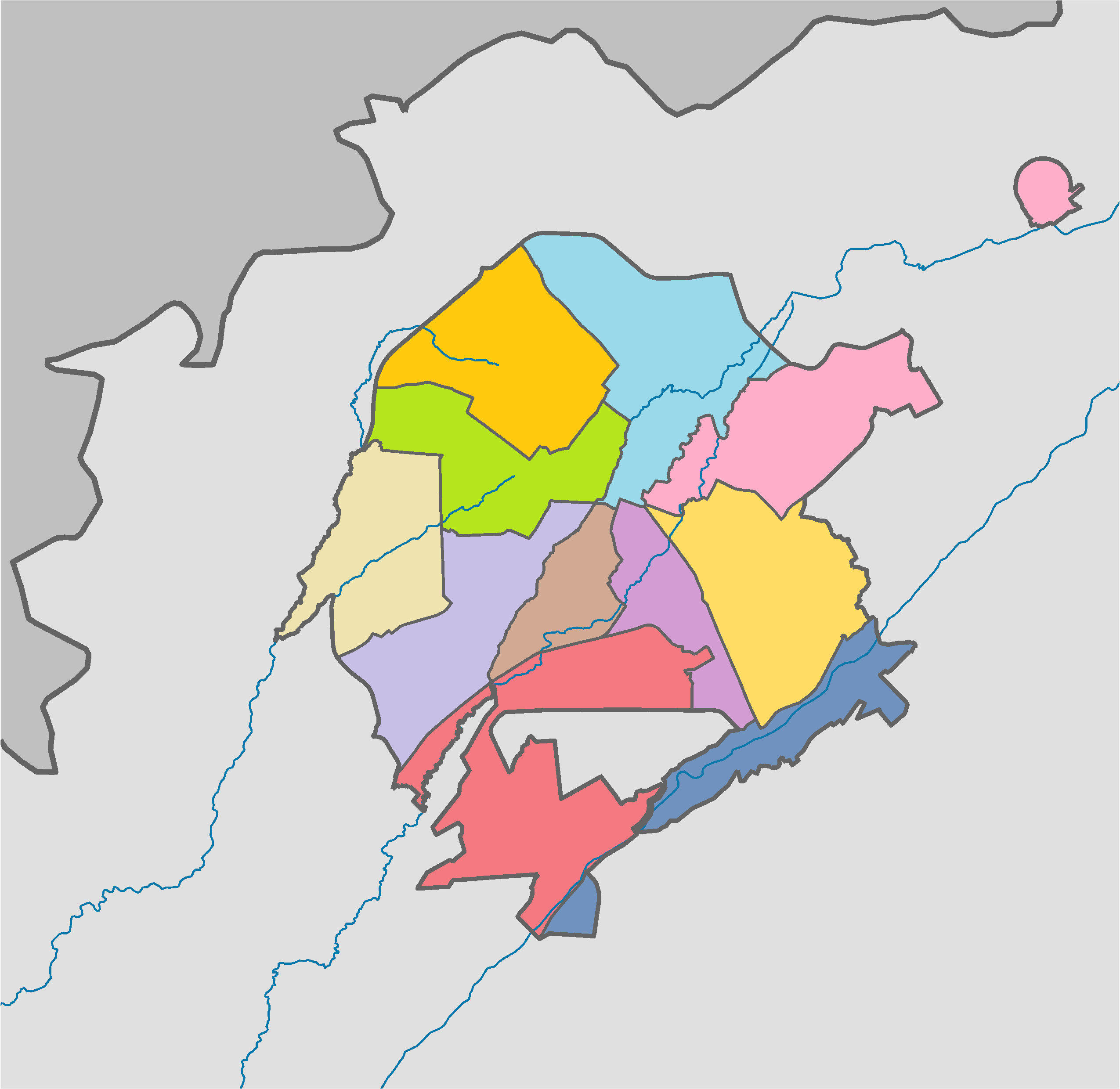 Tashkent city districts (2018), dark grey is Kazakhstan territory, light grey is Tashkent province (Uzbekistan)